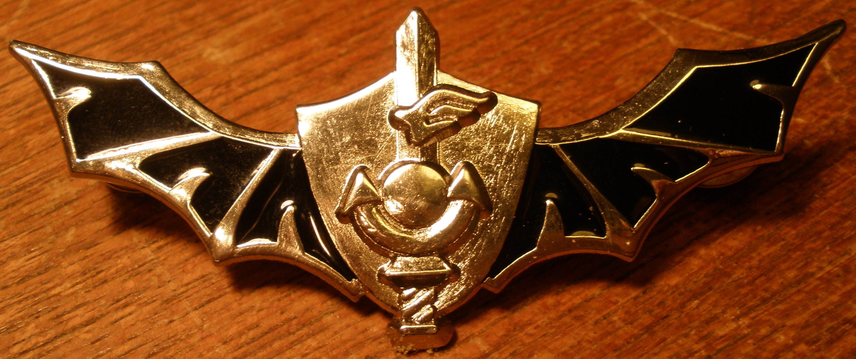 Insignia of Shayetet 13 (S'13), the IDF Naval Commando unit